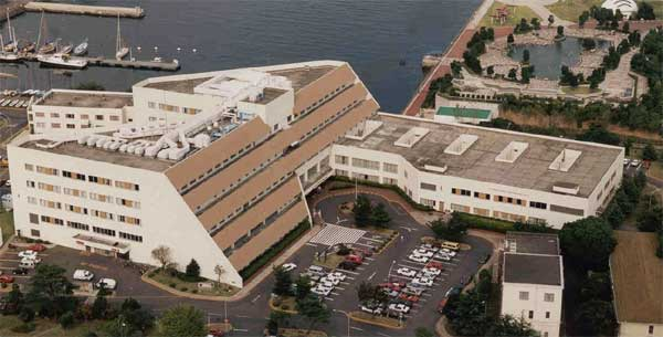 a view from the air of NH yoko